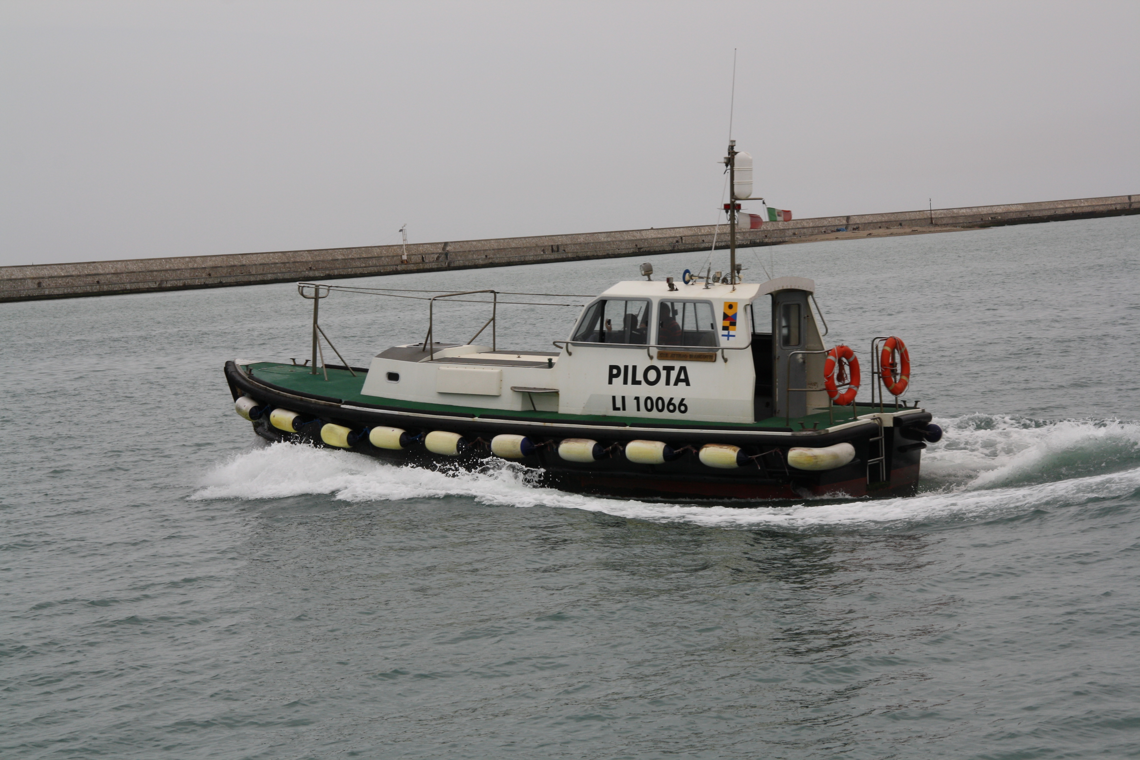 Italy, Port of Livorno. The pilot boat sailing out of the harbour.